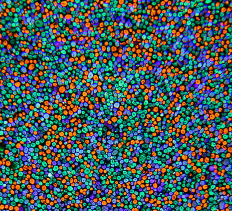 Microphoto of Autochrome plate